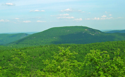 Photographed by Daniel Case 2006-05-28 from the summit of Long Mountain